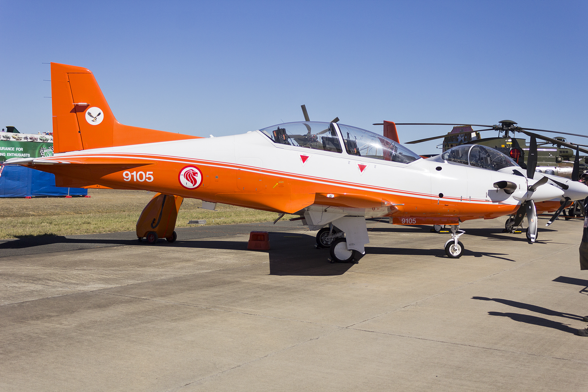 Republic of Singapore Air Force (9105) Pilatus PC-21 at the 2013 Avalon Airshow.